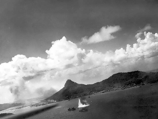 Japanese ships being bombed during attack on Truk by US carrier based planes.